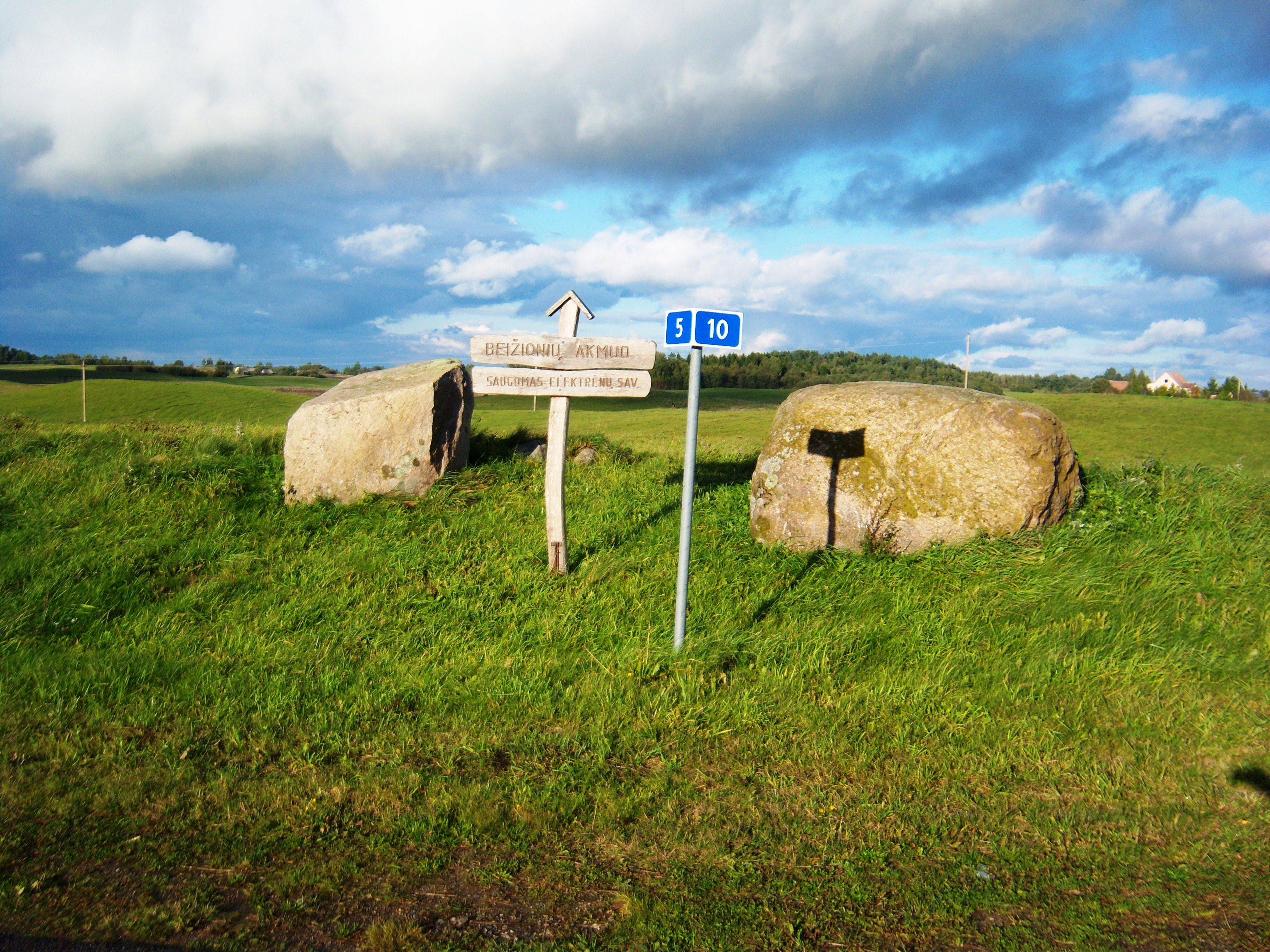 Beižionys stones, Elektrėnai Municipality, Lithuania